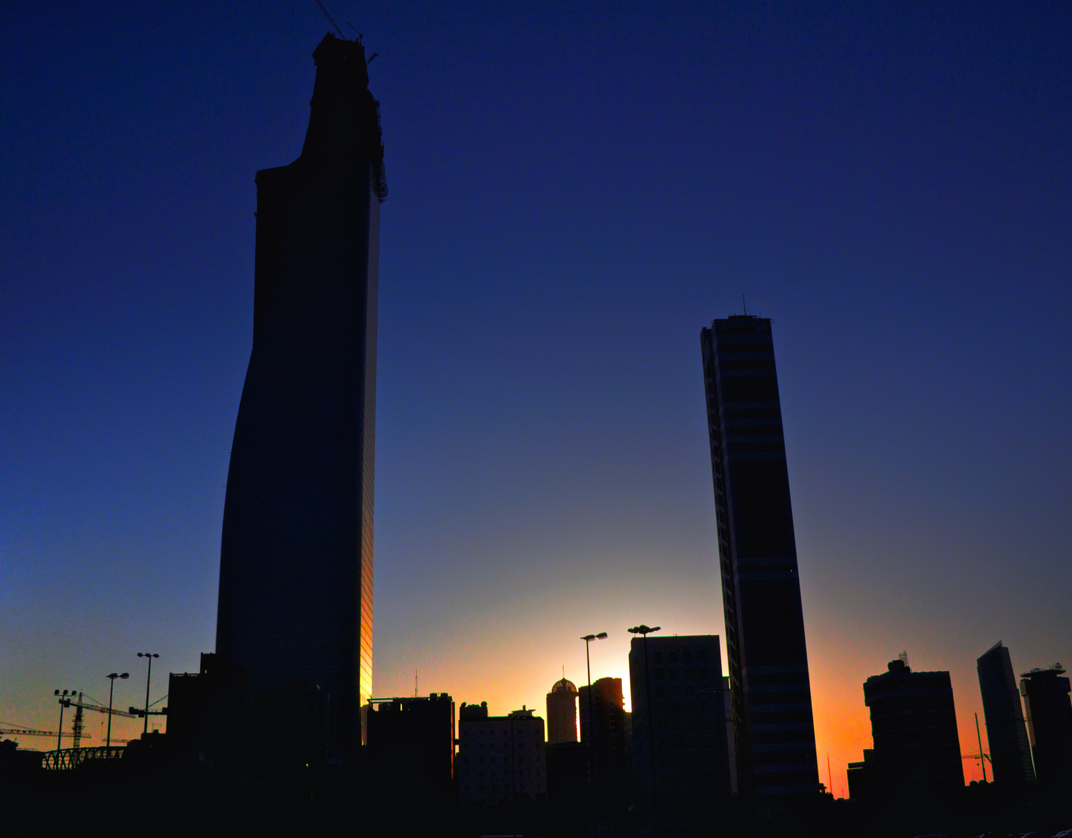 Kuwait Skyline with Al Hamra Tower under construction at sunset